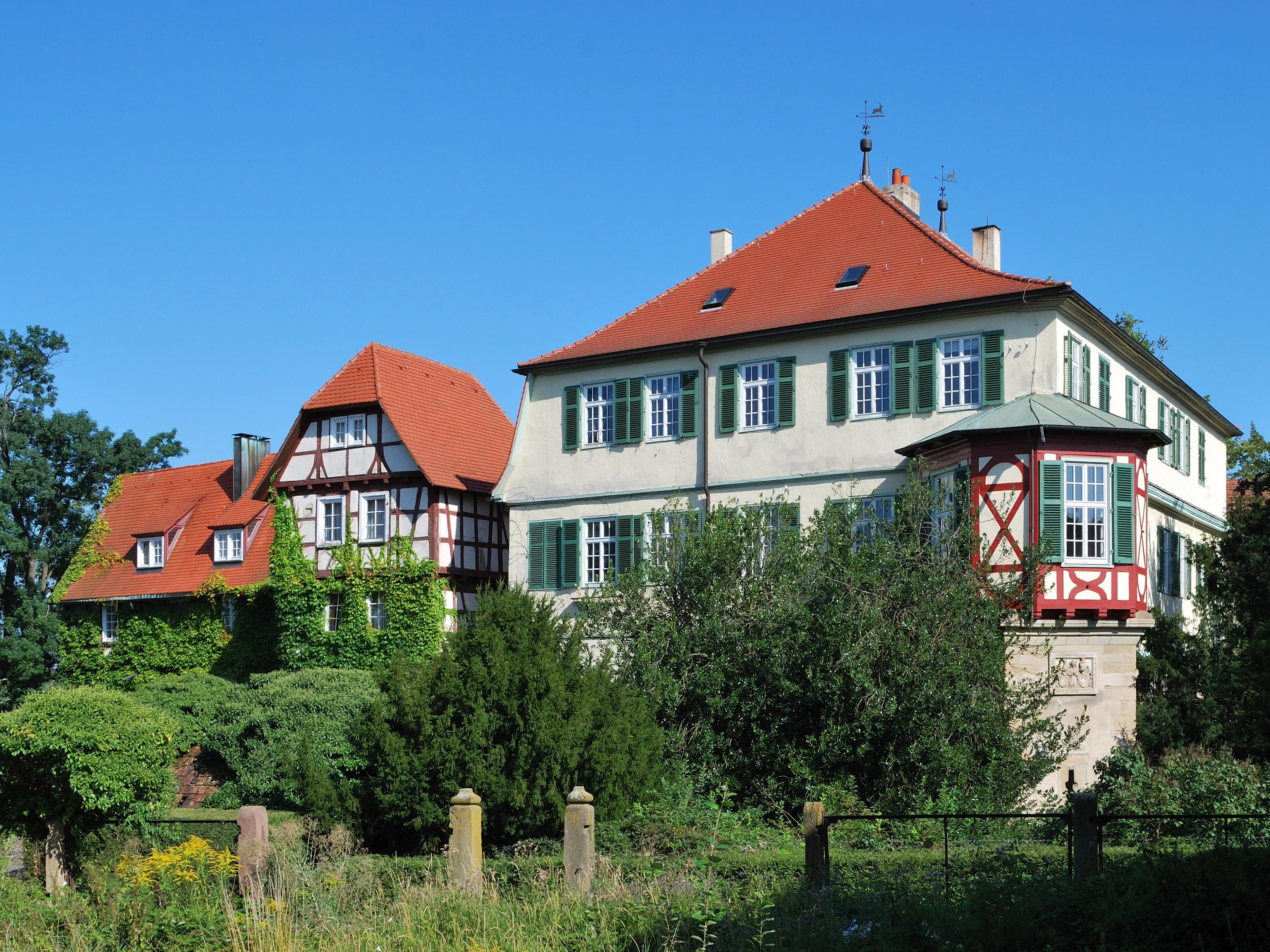 The castle of Schöckingen in Baden-Württemberg in Germany, originally from the 15th to 18th century. The castle was rebuilt in 1760. It is today in private hands.